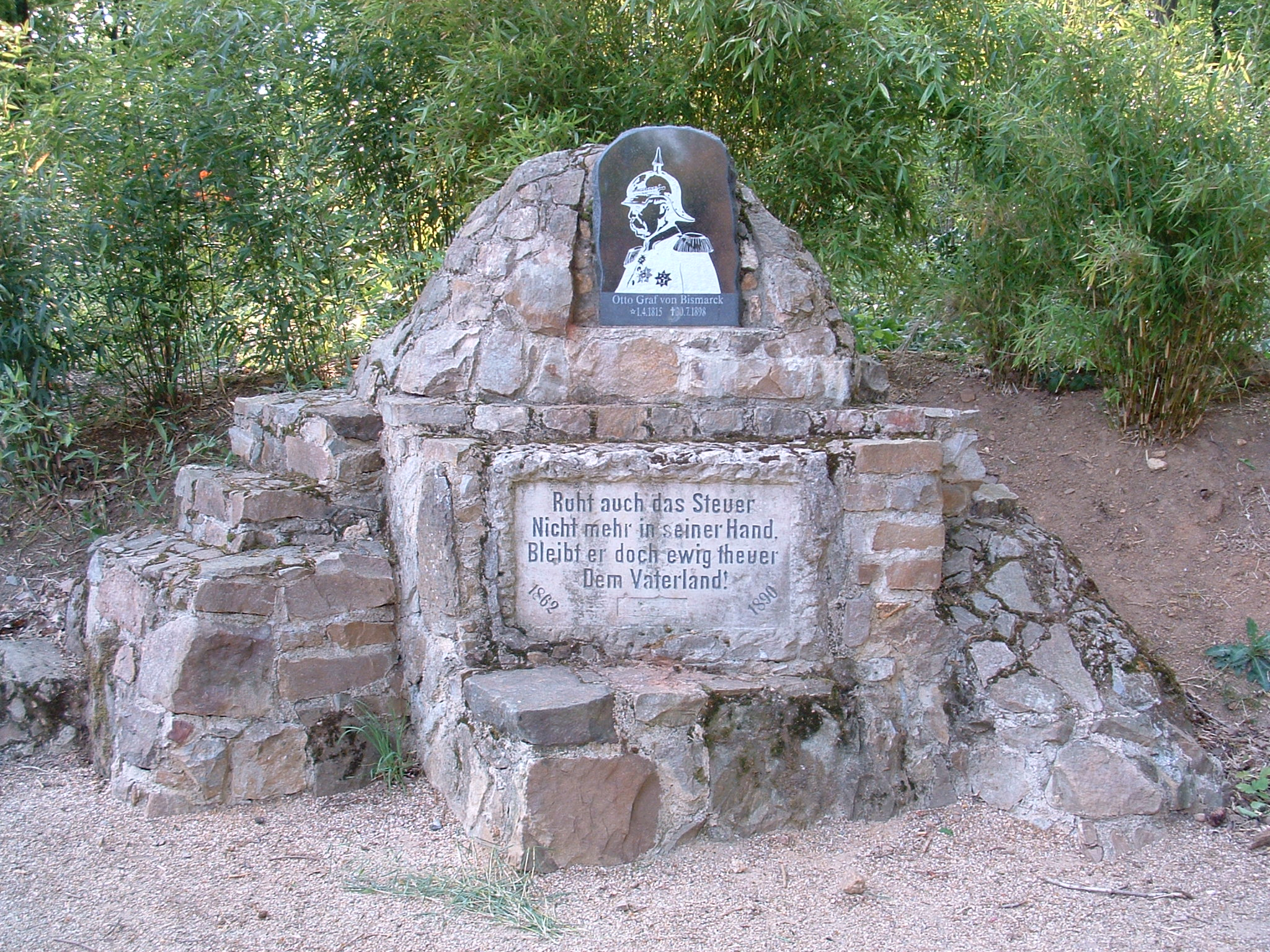 Bismarck Memorial in Langerwehe (Landschaftsgarten Kammerbusch)